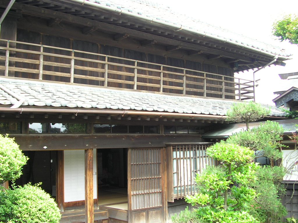 Ujo Noguchi Homes.